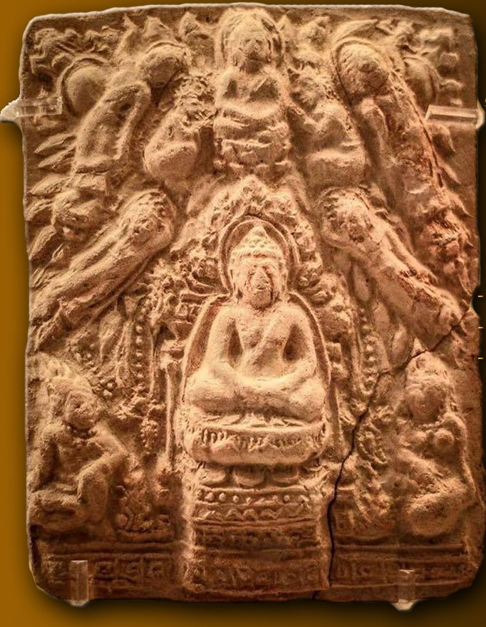 Thai amulet showing the twin miracle, a legendary event in Buddhist texts